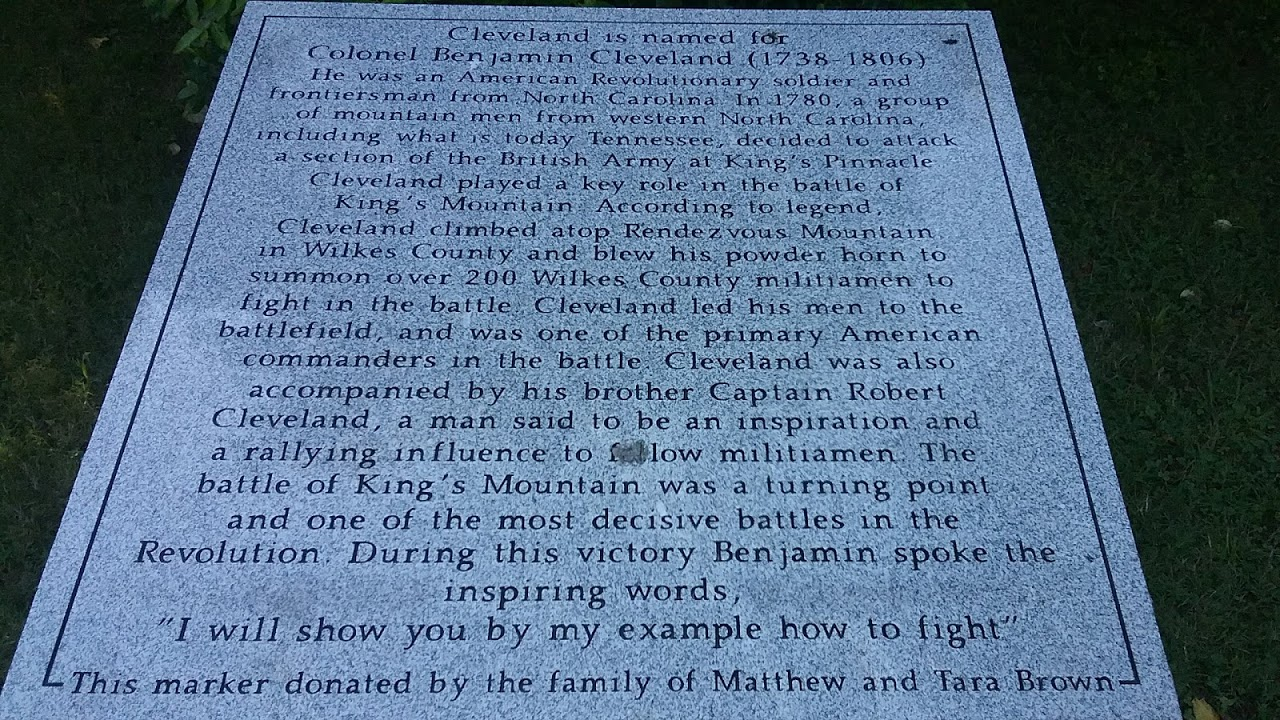 Sign about Col. Benjamin Cleveland, the namesake of Cleveland, Tennessee along the Cleveland/Bradley County Greenway.